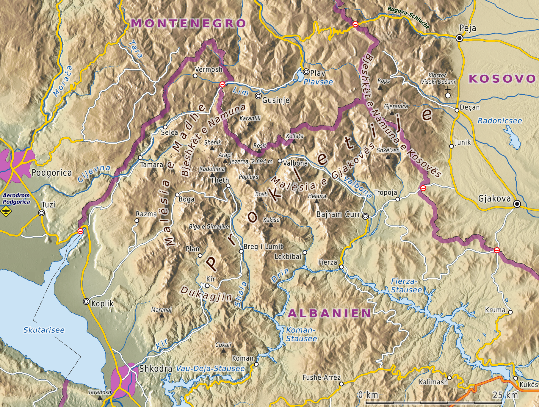 Map of the Prokletije-Mountains (Albanian-Alps)